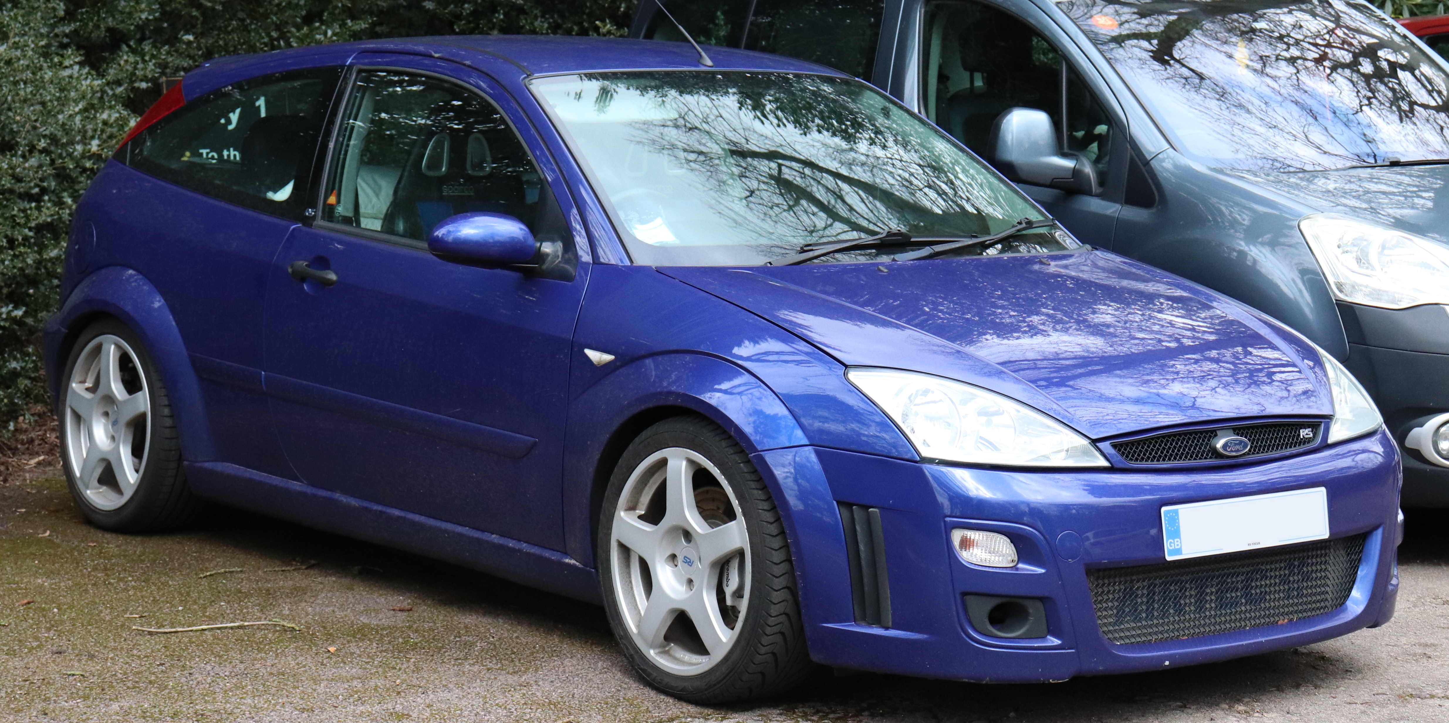 2003 Ford Focus RS 2.0 Taken in Warwick